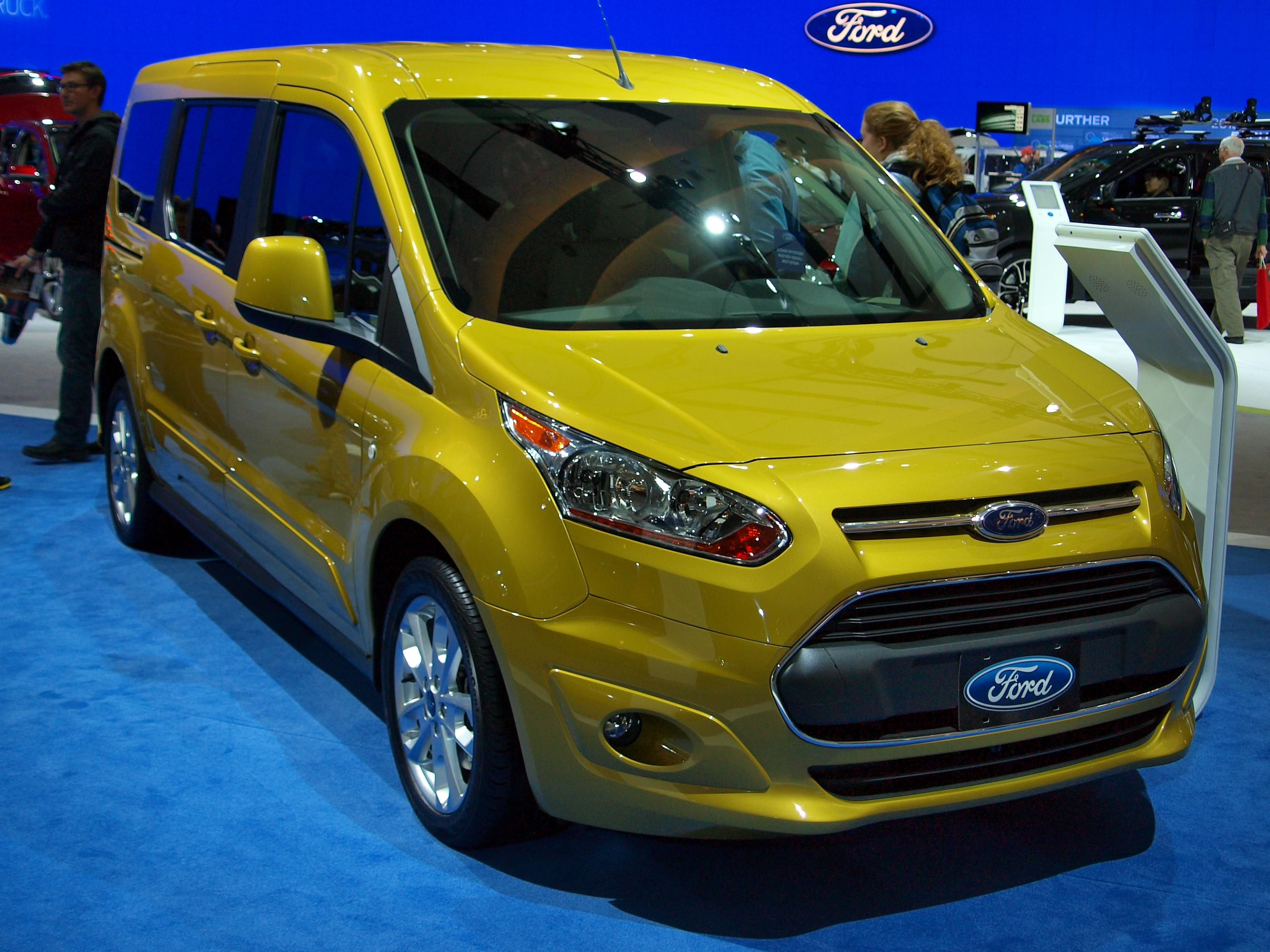 I remember when they first brought over the Transit Connect from Europe and it became a HUGE hit! With this restyled version, it's going to explode! Good Job Ford; We've only been telling you for years to bring over your European styled cars!